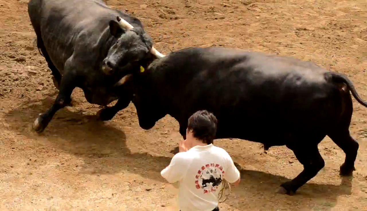 Bull wrestling (Ushi no tsunotsuki) in Yamakoshi, Nagaoka, Niigata Prefecture, Japan